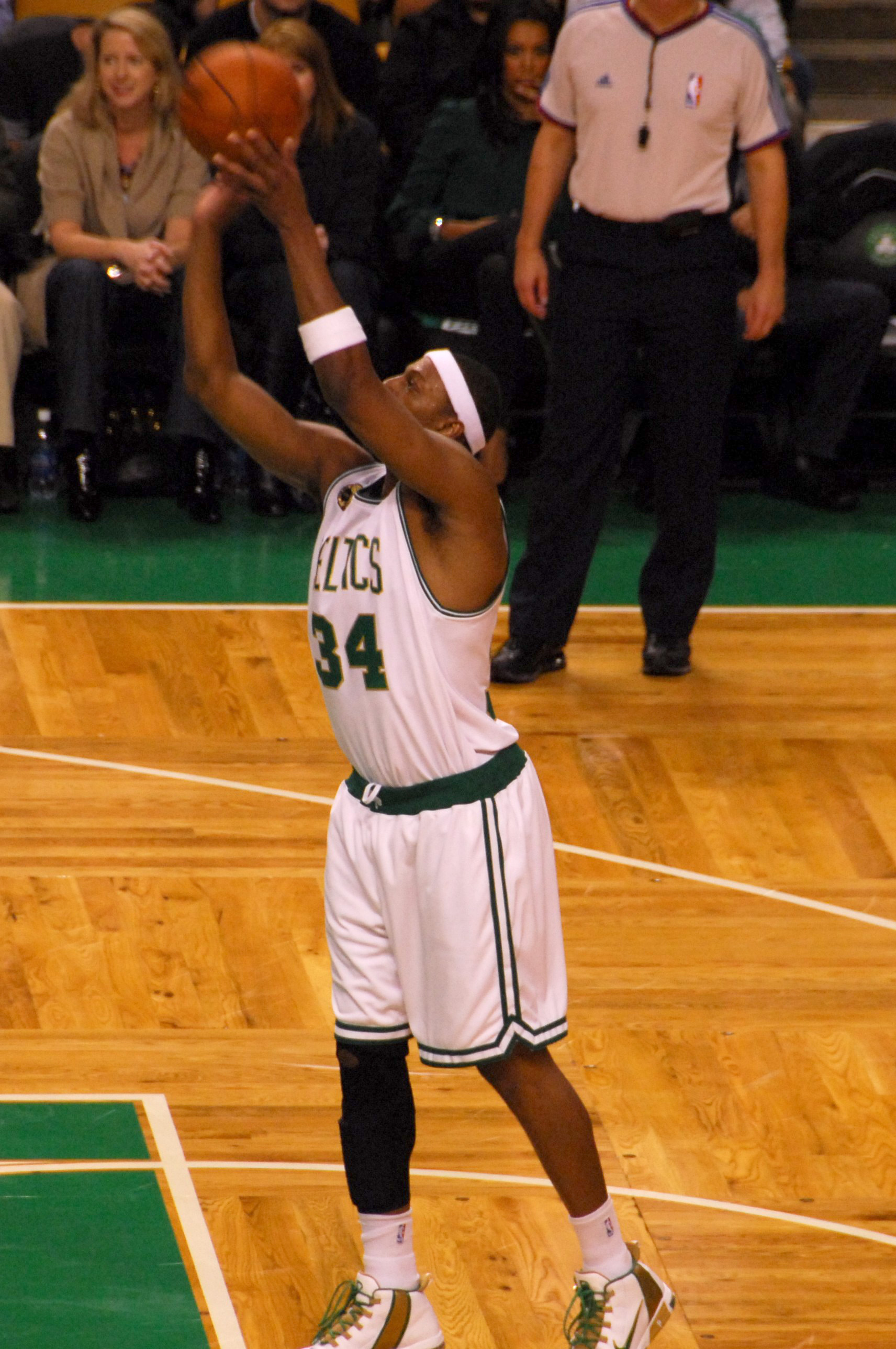 Buddy-Icon von Eric Kilby Cavs @ Celtics 10/28/2008